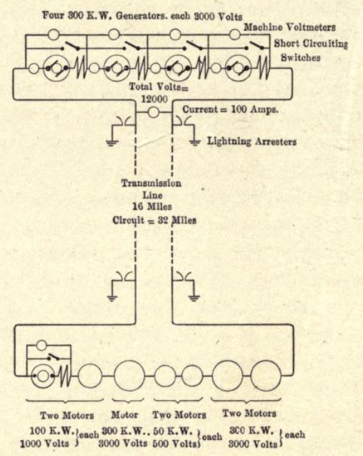 Diagram of a 1.2 MW Thury System.